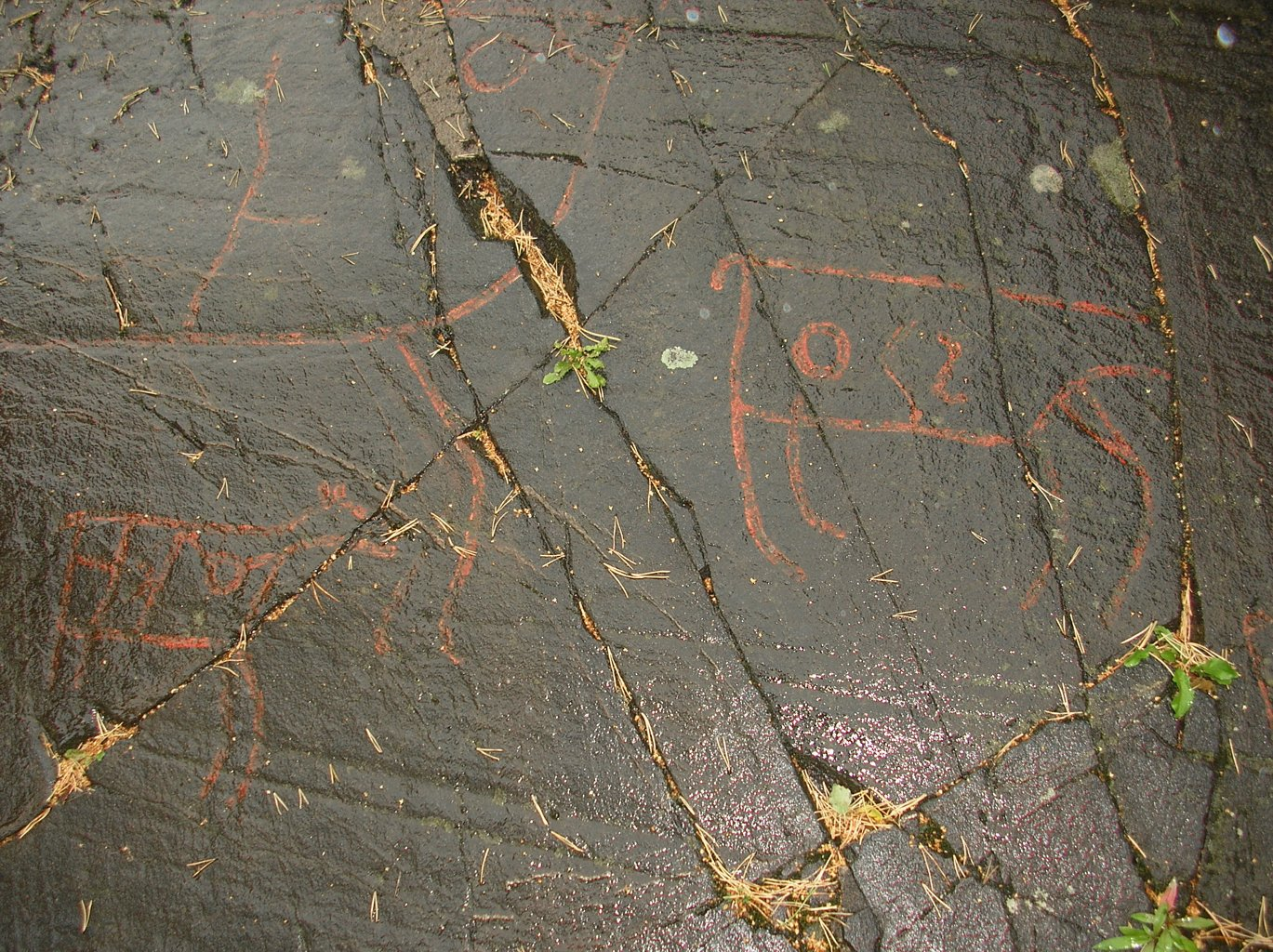 Rock carvings at Sjømannsskolen in Ekeberg, Oslo (Norway)